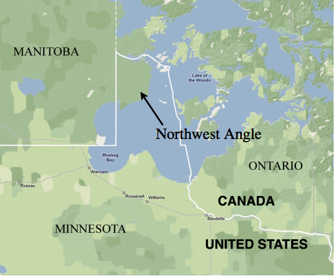 Map of Northwest Angle